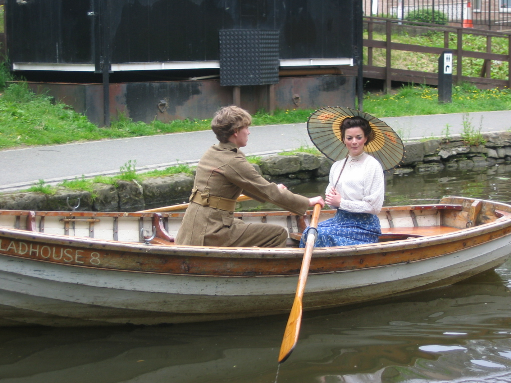 Filming for "Patrick MacGill", Edinburgh Union Canal Boathouse, Scotland